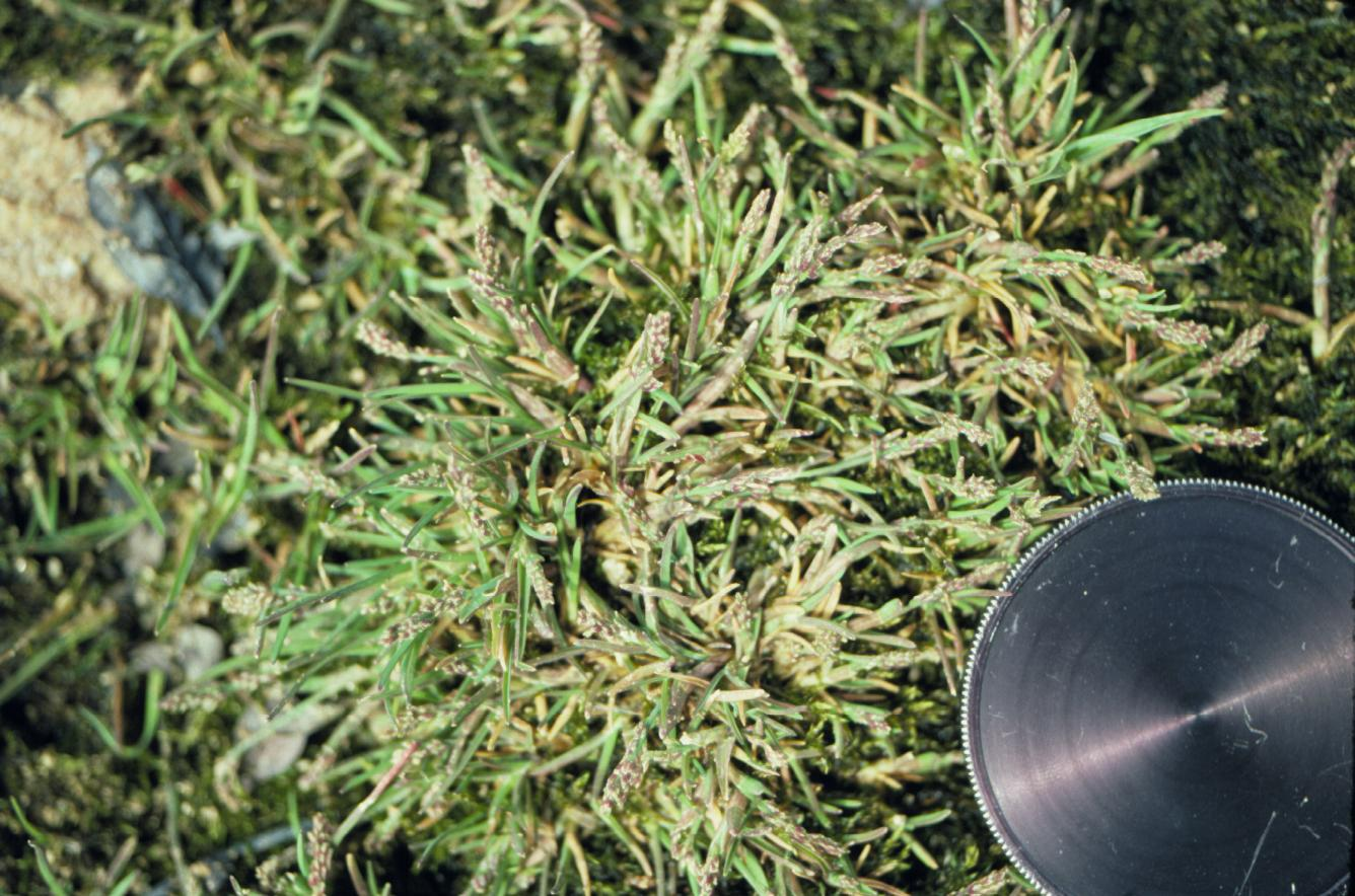 Phippsia algida, Carbon Co., MT, USA